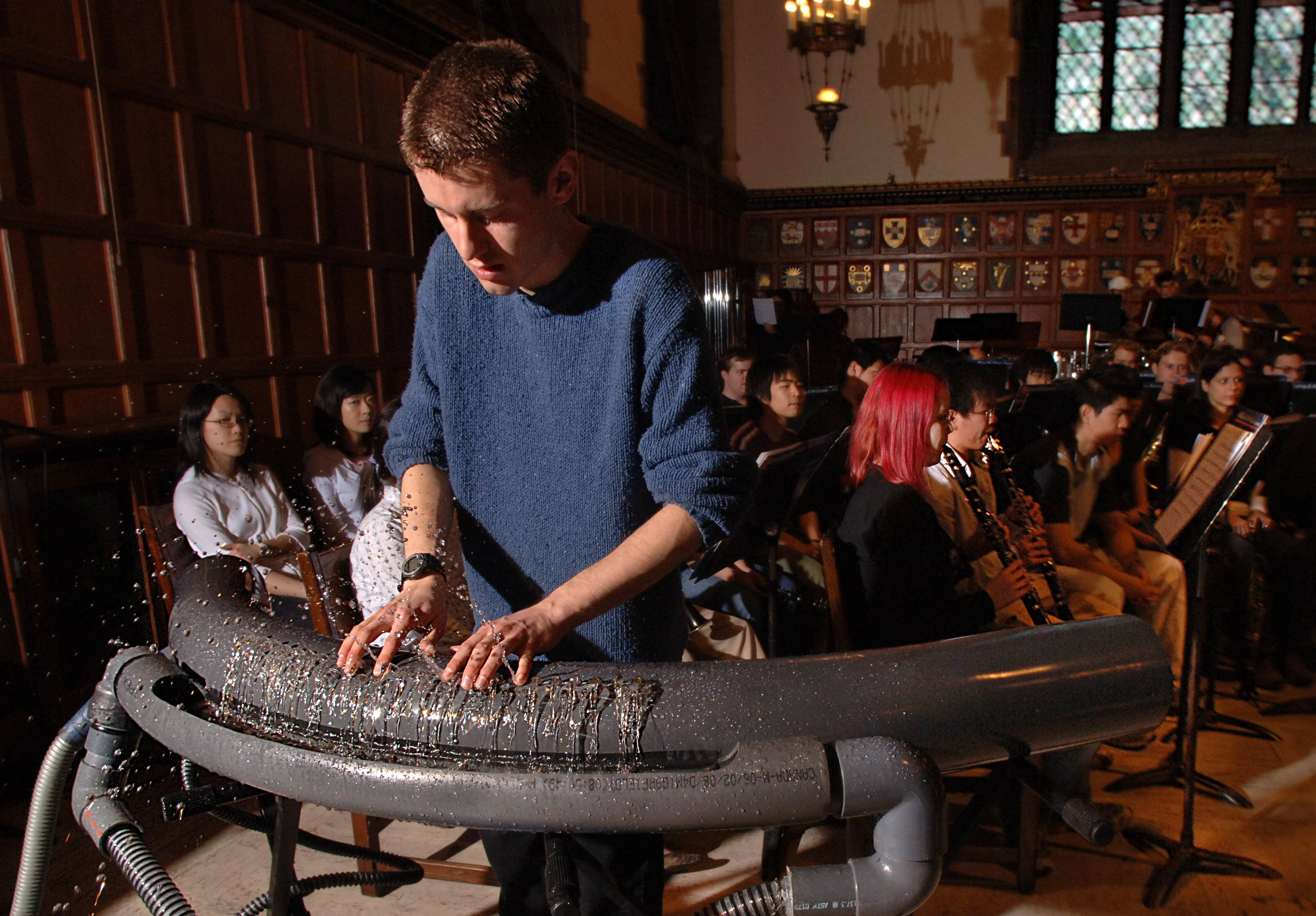 Picture I took at hydraulophone rehearsal, at the Great Hall, Hart House, University of Toronto, Nikon D2X, wearable computer, wireless link to Lumedyne light source set to maximum (400J, lamp operating at 480 volts, triggered at 6000 volts, all capacitors switched to load, used with stock dimpled aluminum reflector). Hydraulist and composer Ryan Janzen, playing with Hart House Symphonic Band. Taken Tuesday evening, 2007 March 27th (all rehearsals and the concert itself, are on Tuesdays; date in camera may be wrong by one day.)